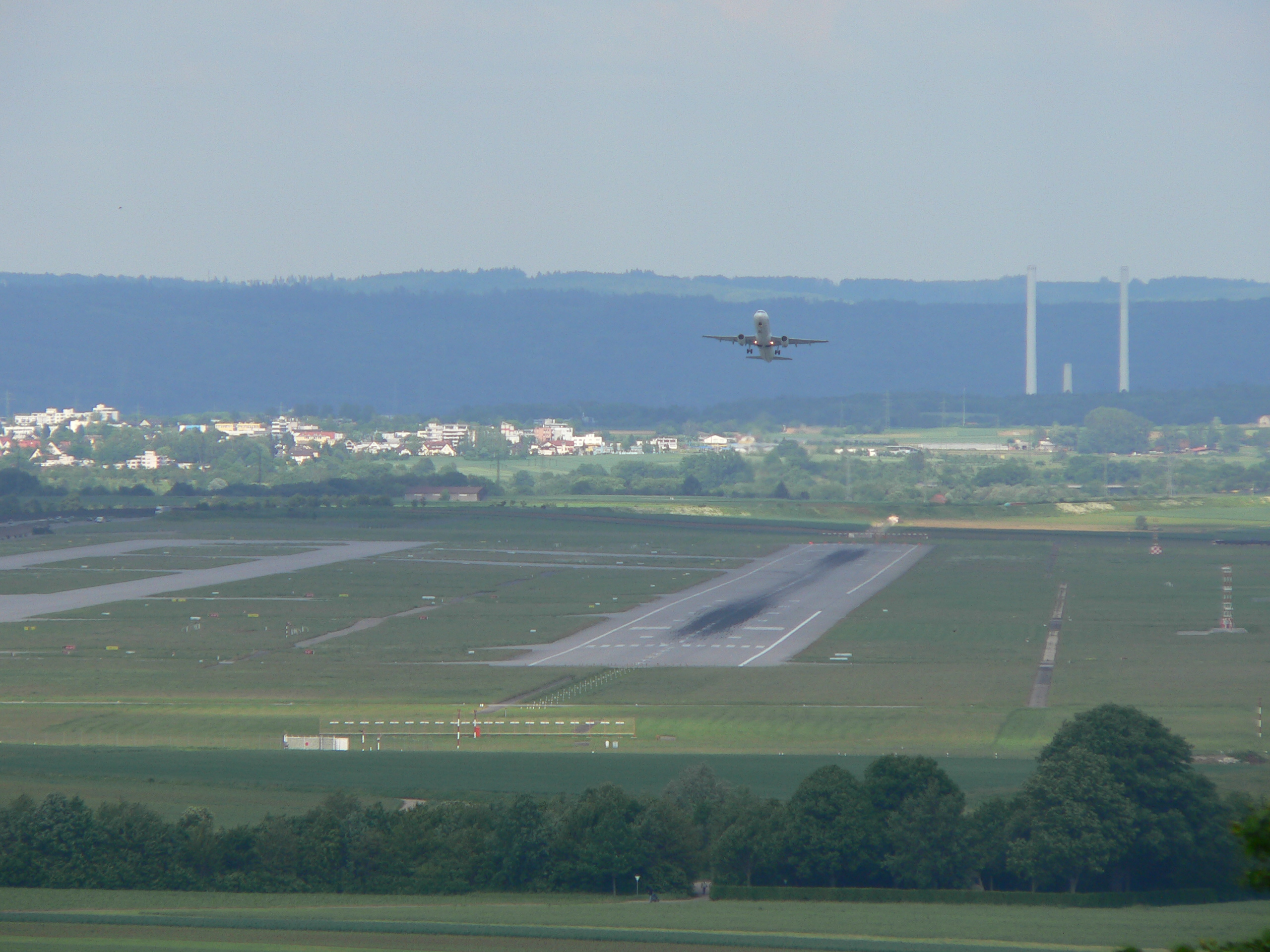 The runway of Stuttgart Airport from Echterdingen (Weidacher Höhe)